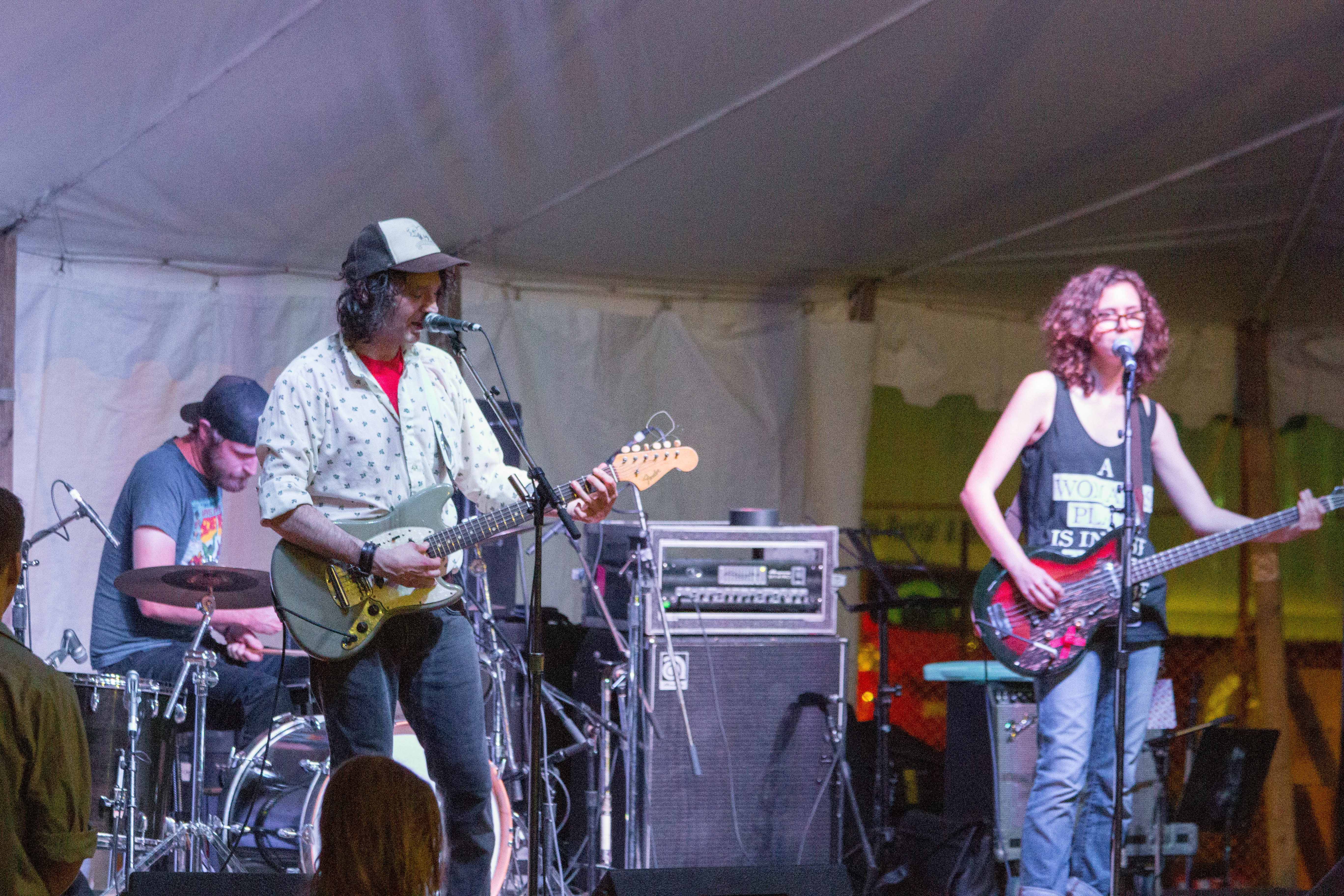 The band By Divine Right performing at the 2015 Hillside Festival in Guelph, ON